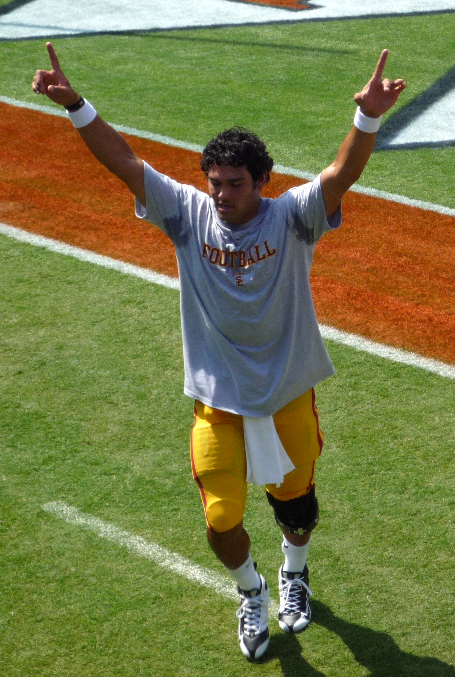 Quarterback Mark Sanchez runs off the field before a USC game versus Virginia. USC would go on to win 52-7 behind his career-best performance, throwing for 338 yards, making 26 of 35 pass attempts and totaling three touchdowns; he would earn Quarterback of the Week honors from the Davey O'Brien Foundation.